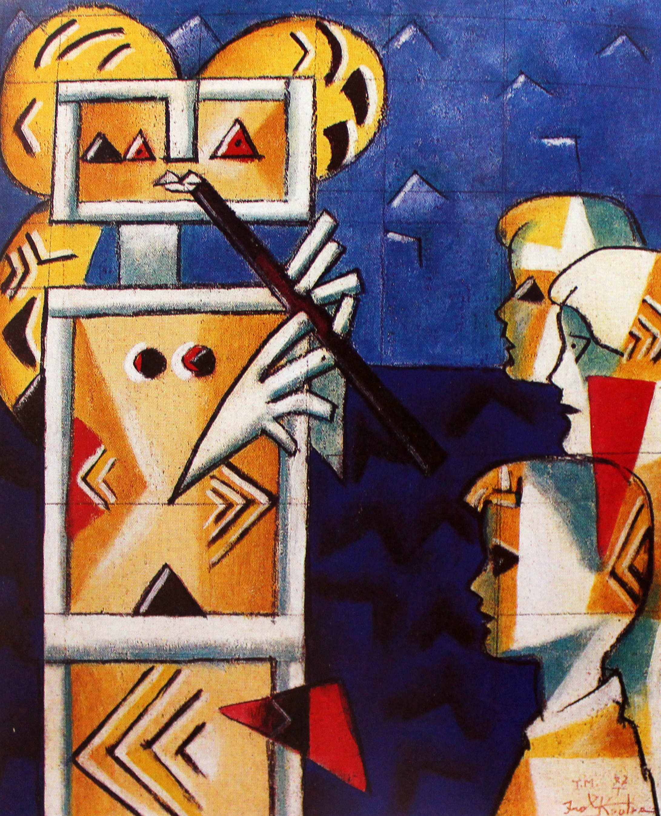 This is under the ownership of Kosova National Art Gallery. We have been given the rights to freely use the data available in its published book, Kosovo Contemporary Art